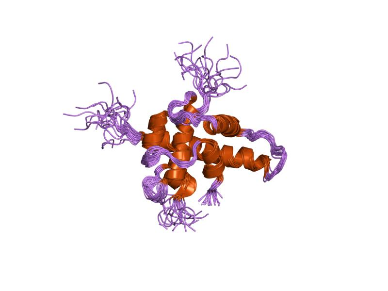 Cartoon representation of the molecular structure of protein registered with 1l3e code.